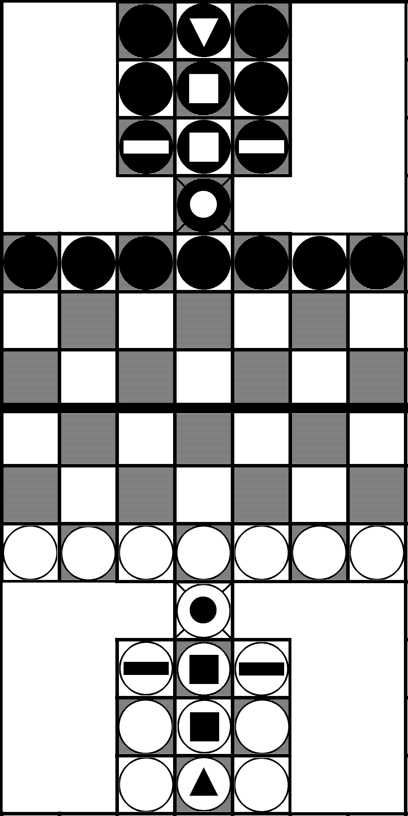 Board for the chess like game Shatra with the initial piece setting and marked ditch.